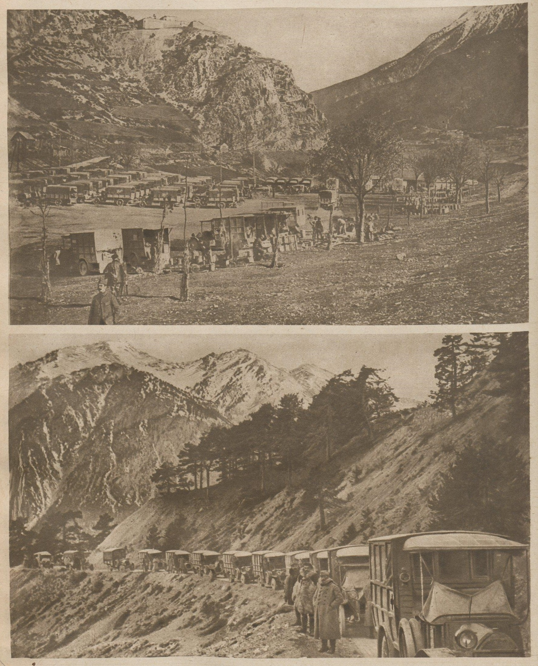 The French military reinforcements to the Italian front in 1917. Document top : Parked vehicles in Briançon before crossing the Alps. Document bottom : French truck convoys making a stop at the pass of Montgenevre. Photographs published by the French weekly Le Miroir, December 9, 1917.